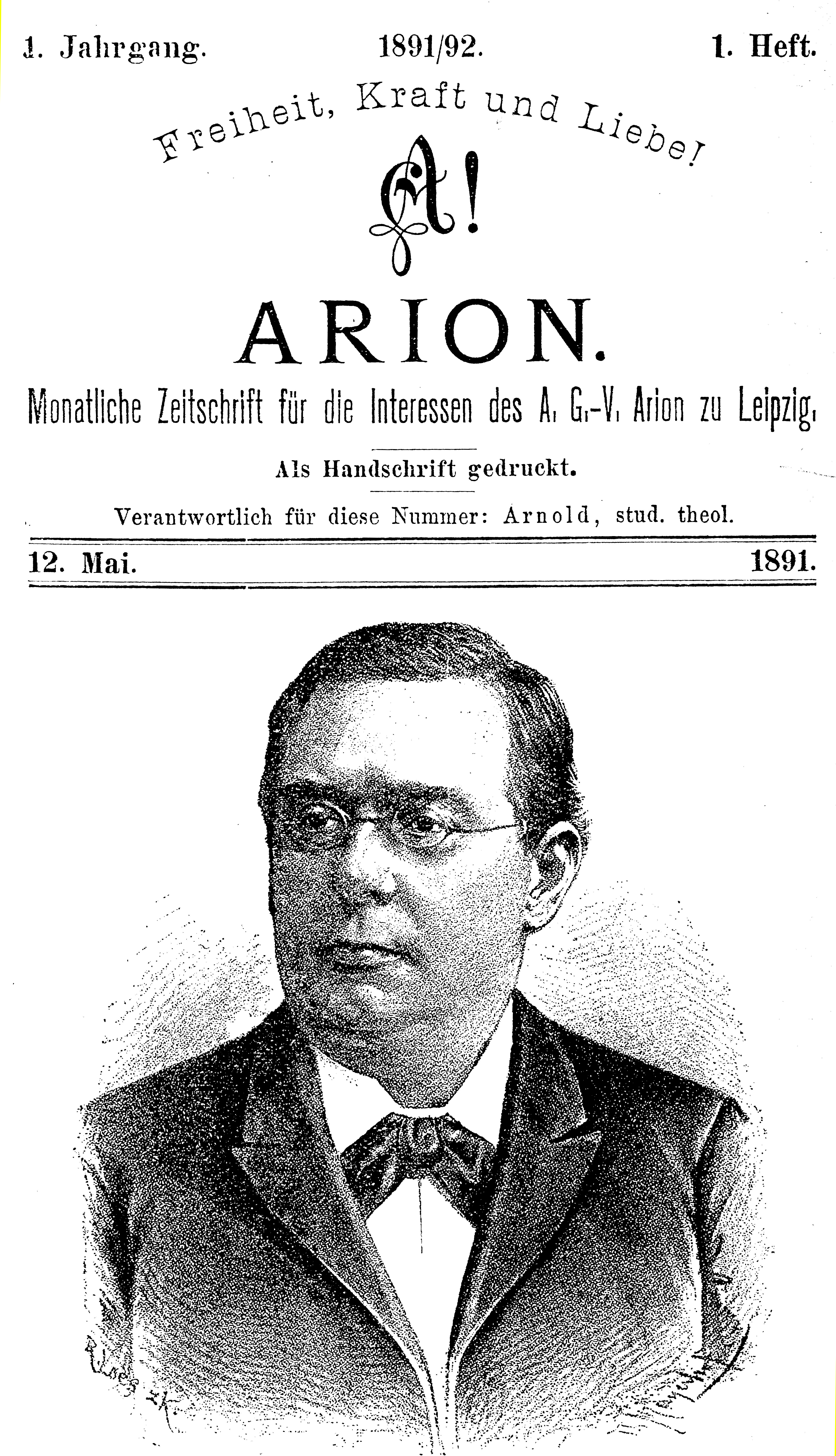 The frist page of the first issue of “Arion”, the newsletter of the Choir society from Leipzig, with the portrait of its founder Richard Müller (1830—1904)